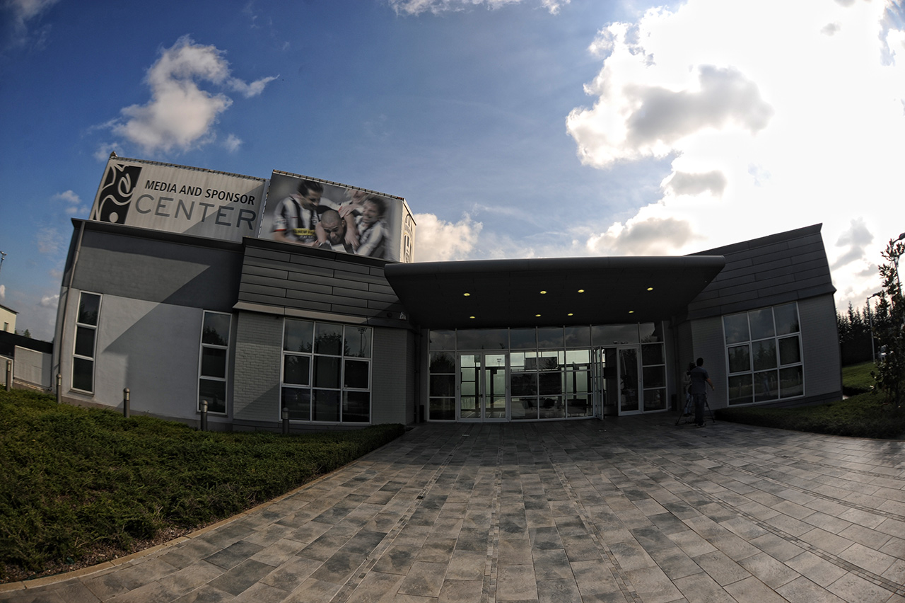 The Media and Sponsor Center of the Juventus Training Center in Vinovo, Turin.